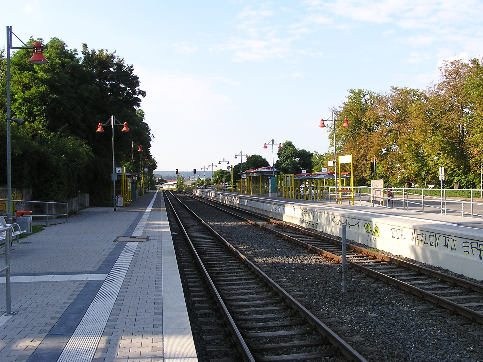 Station Neu-Anspach at the Taunusbahn